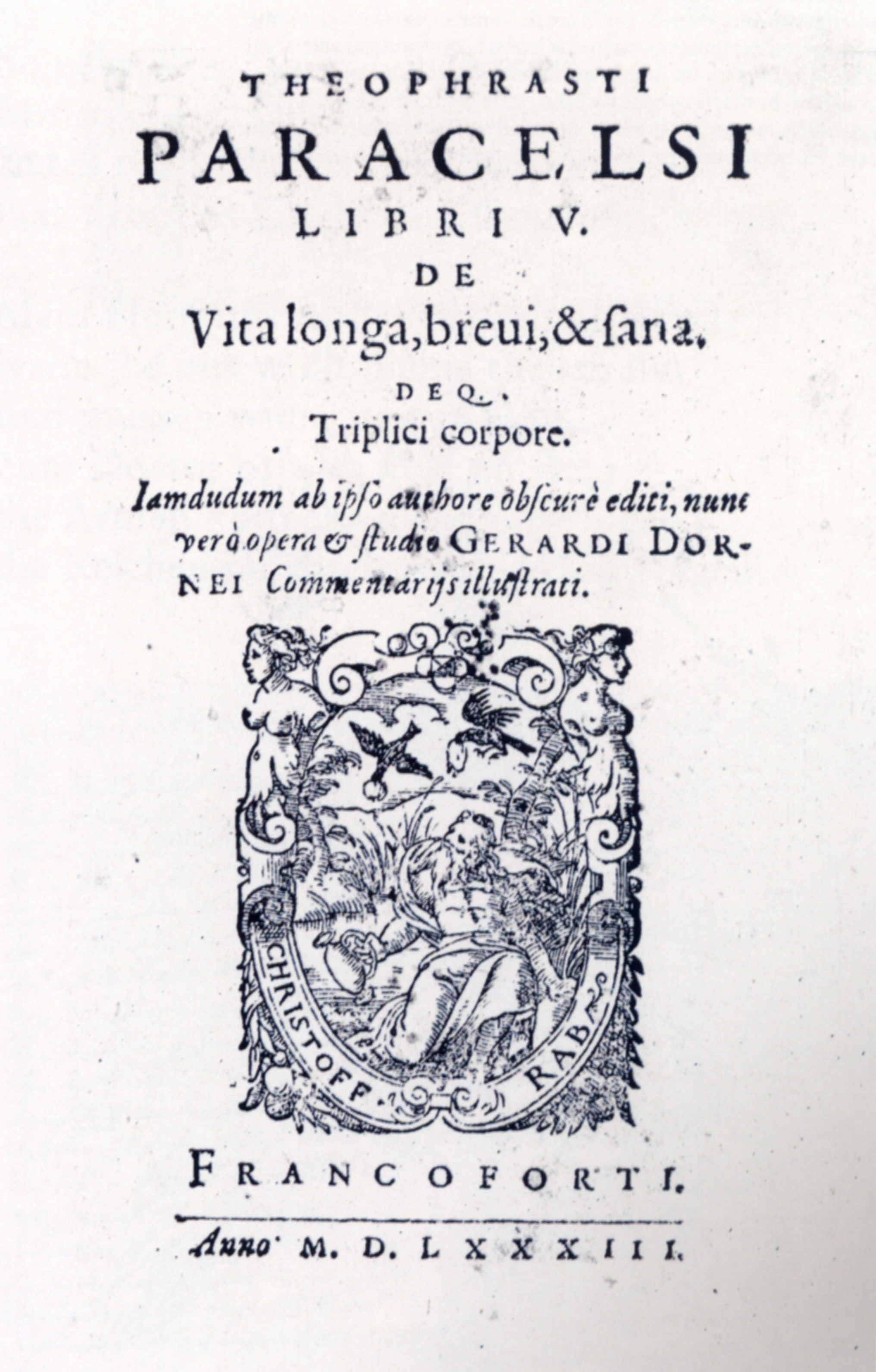 Paracelsus: De vita longa, Christoff Rab (Christoph Corvin), Frankfurt 1583 (Prädikantenbibliothek Isny)